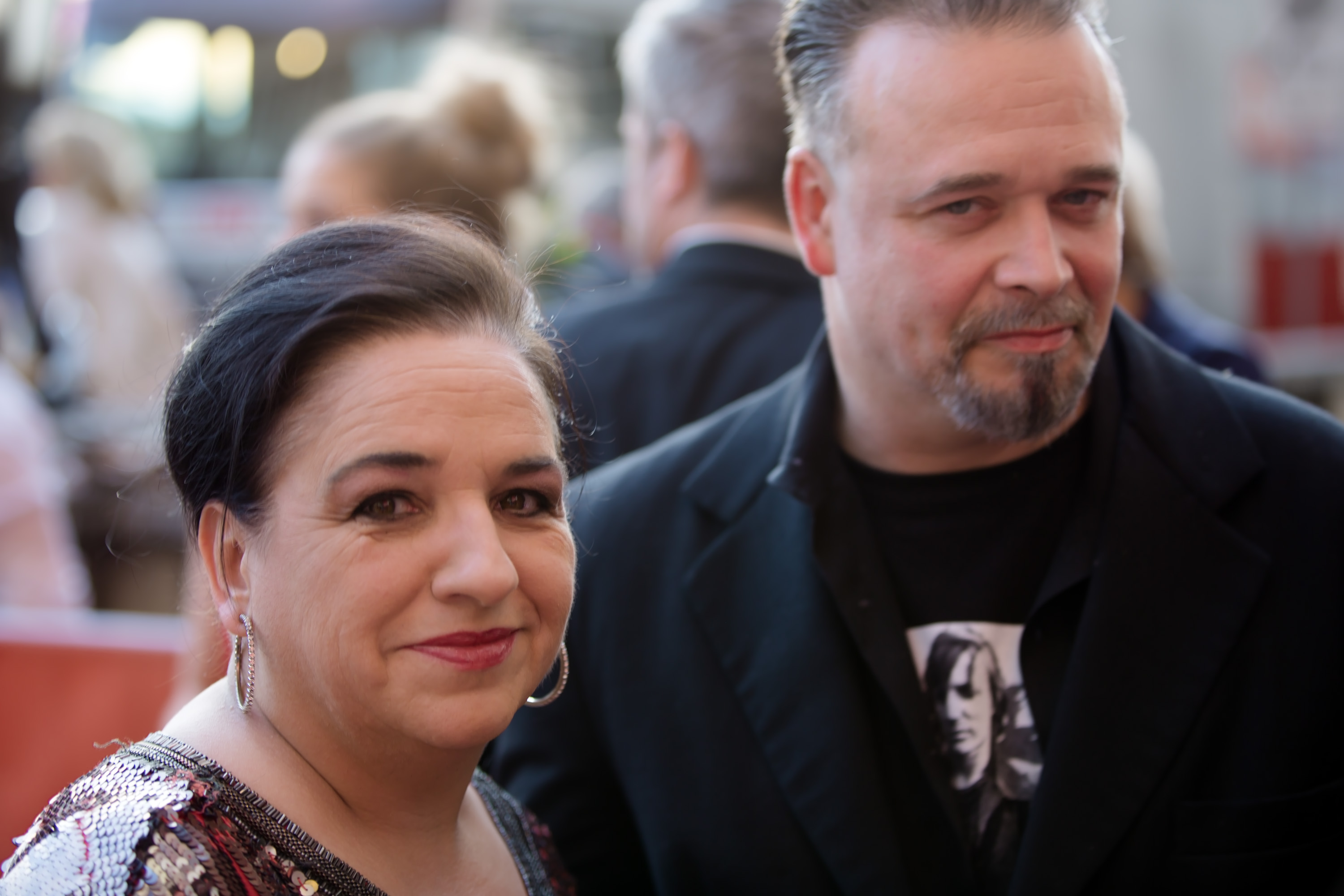 Maria Happel and Dirk Nocker on the red carpet of the Romy TV awards at Hofburg Palace in Vienna, Austria.